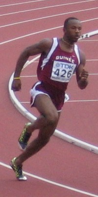 A 200 metres run at the 2005 Athletics World Championships in Helsinki. qualifications - heat 1 (-2.5m/s): 2 lan- 426 Fofana Nabie Foday GUI 22.16